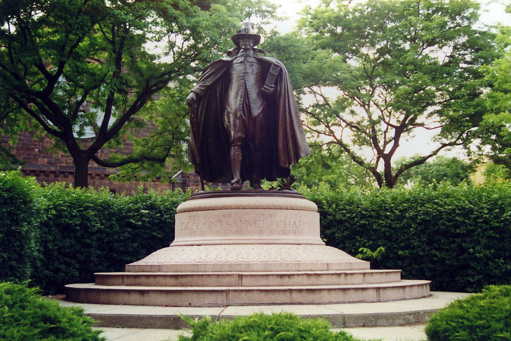 A St. Gaudens statue the "Puritan" located In Springfield MA, USA